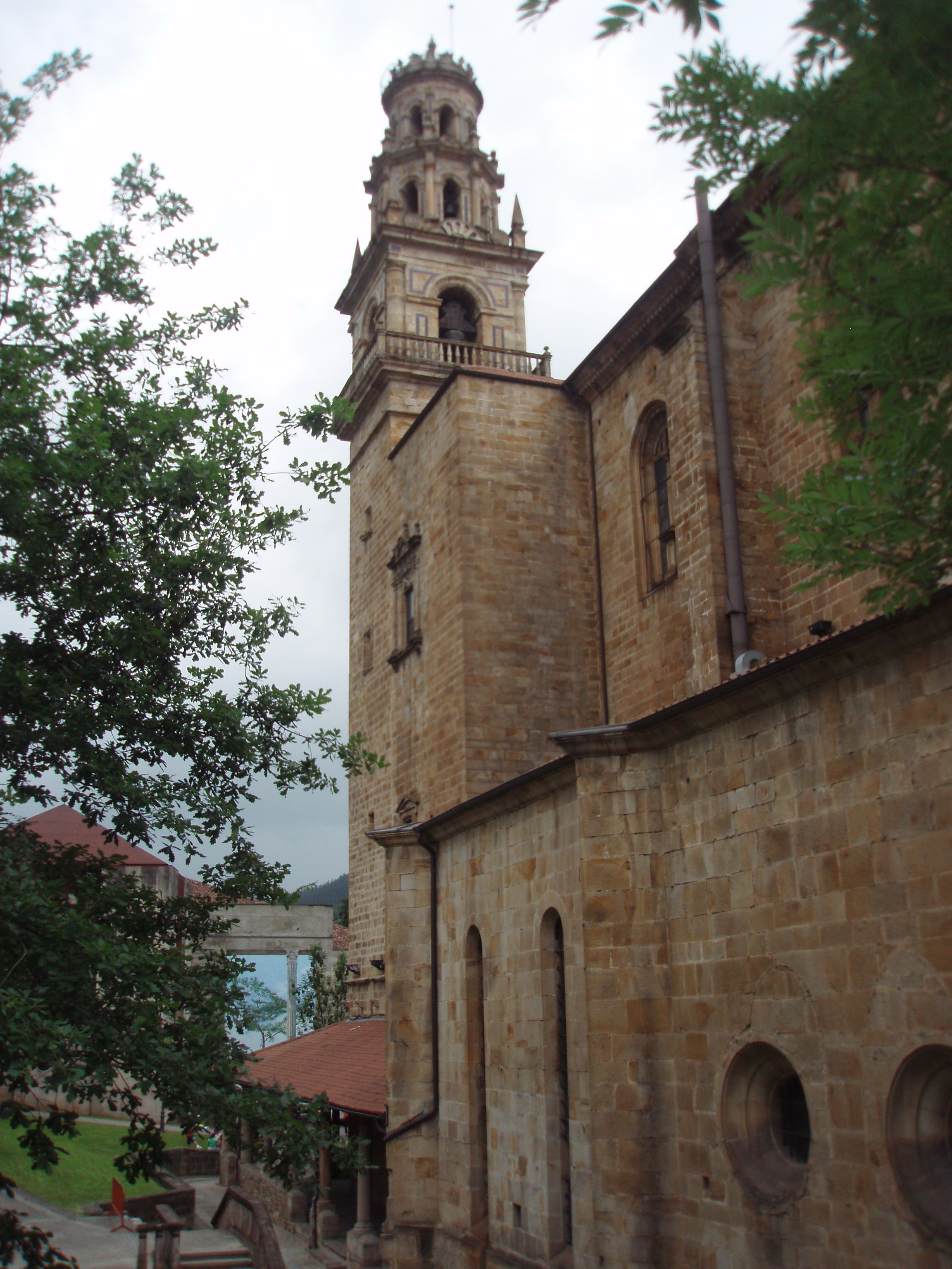 A picture of the Basilica of la Purísima Concepción, in Elorrio, Biscay, Basque Country, Spain